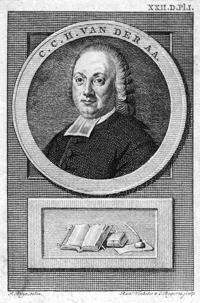 Ch. C. H. van der Aa (1718-1793). Engraving from a book. " .I."